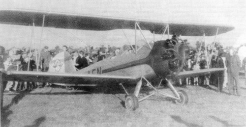 Heinkel He 72 Kadett SP-AFN in Bydgoszcz airfield